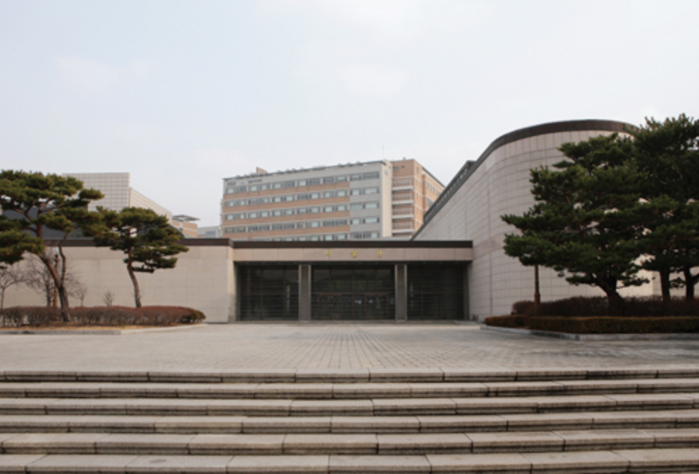 Seoul National University Museum. Main entrance.